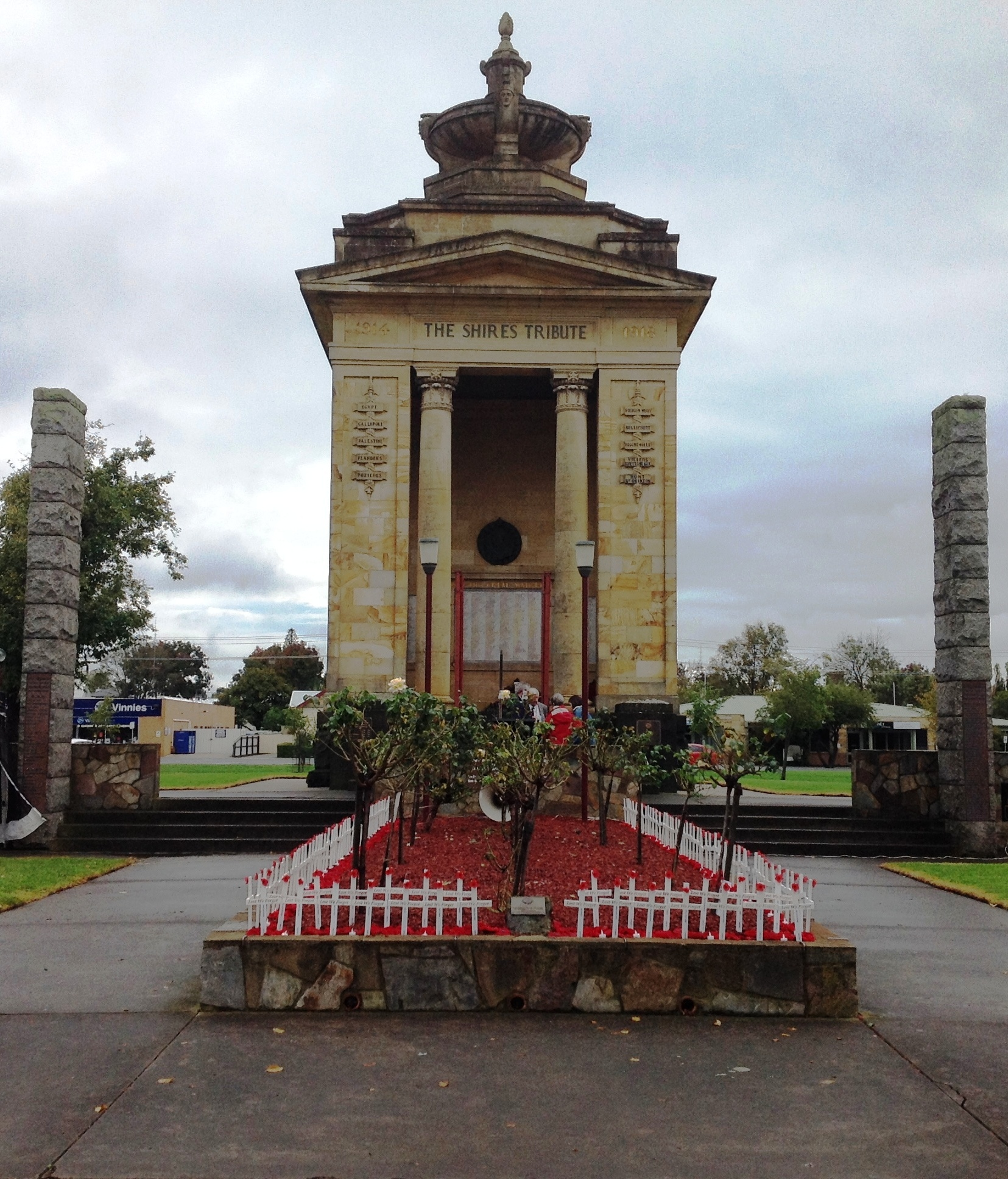 On Anzac Day 2017 168 crosses each depicting the name and date of death of Colac and district men in World War I in 1917